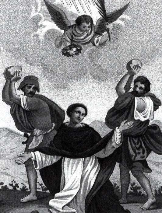 Martyrdom of blessed Anthony Neyrot, dominic friar, 1460